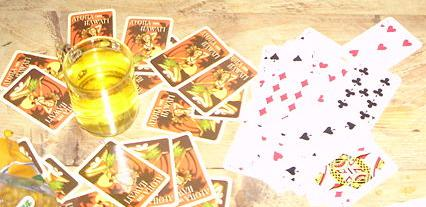 Kings Cup